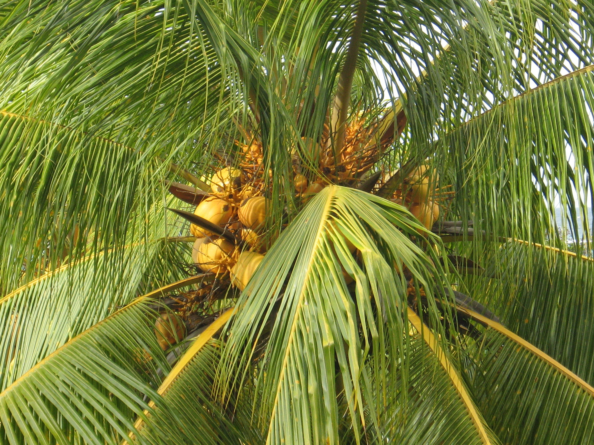 Coconut tree in Cuba